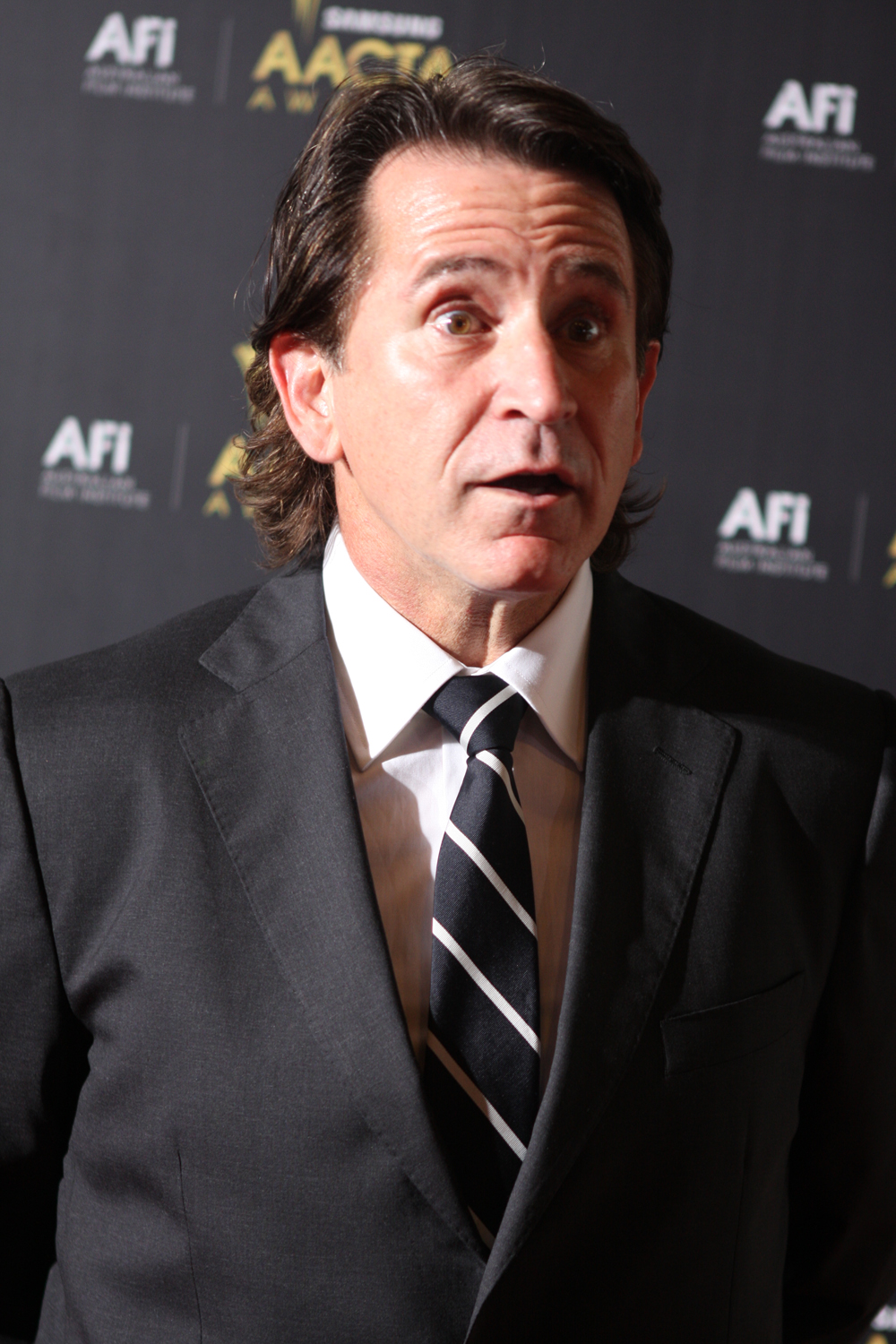 Australian actor Anthony LaPaglia at the AACTA award 2012